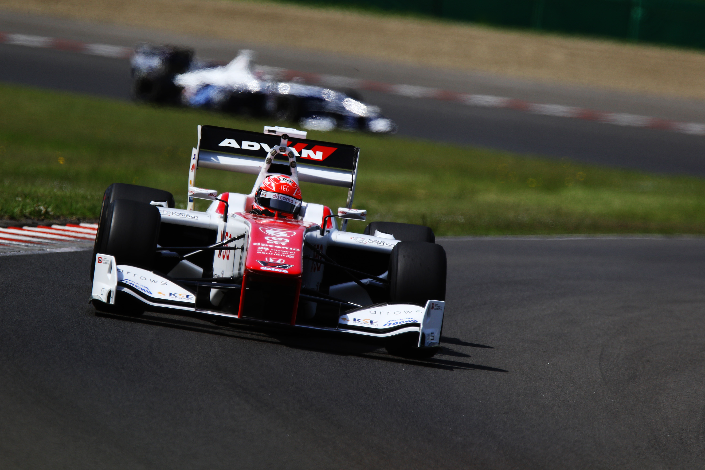 2018 Super Formula Championship, Autopolis.